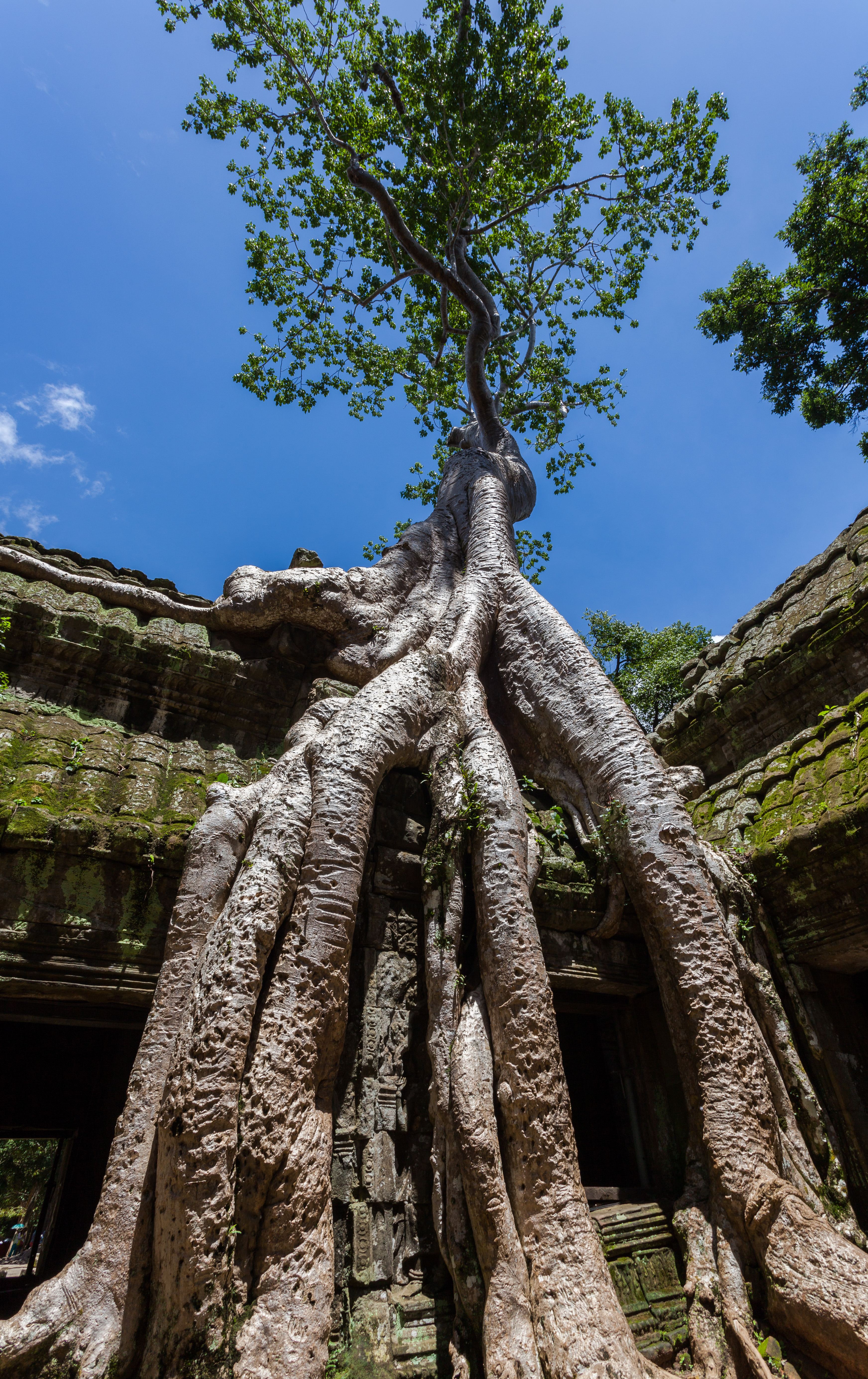 Ta Phrom, Angkor, Cambodia